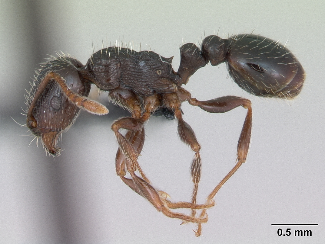 Profile view of ant Tetramorium caespitum specimen casent0173203.